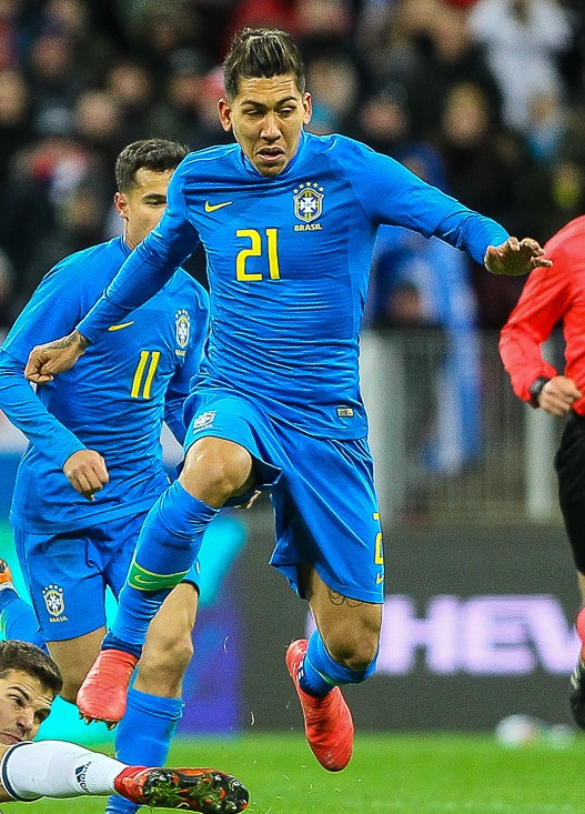 Roberto Firmino